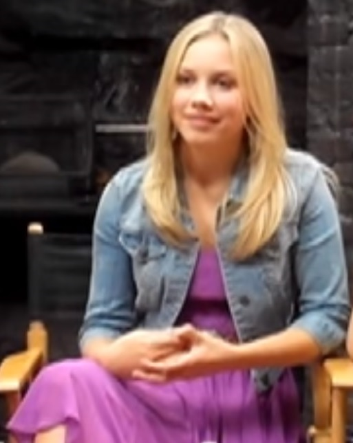 Ryan Potter, Gracie Dzienny and Carlos Knight from Nickelodeon's Supah Ninjas tell LA Teen Festival about their own real life martial art skills. You can read the entire interview at in issue #13.